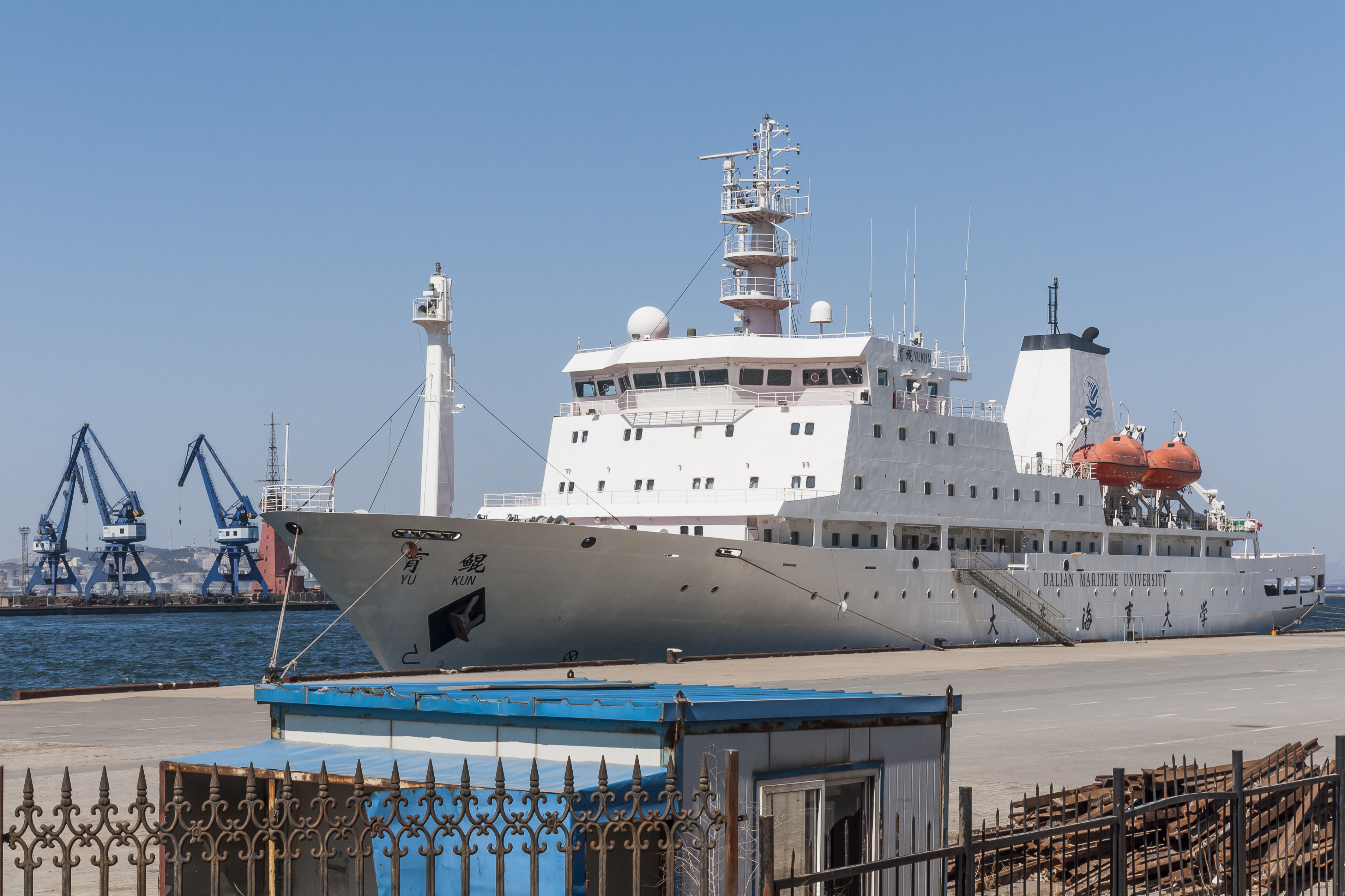 Dalian, Liaoning, China: Yu Kun, the training ship of Dalian maritime University mooring in Dalian Harbour Flag: China Type: Training Ship IMO: 9378137 MMSI: 412701000 Call sign: BQHZ GRT: 6106 L x W: 116m x 18m Year: 2008 Built by WUCHANG SHIPBUILDING INDUSTRY - WUHAN, CHINA